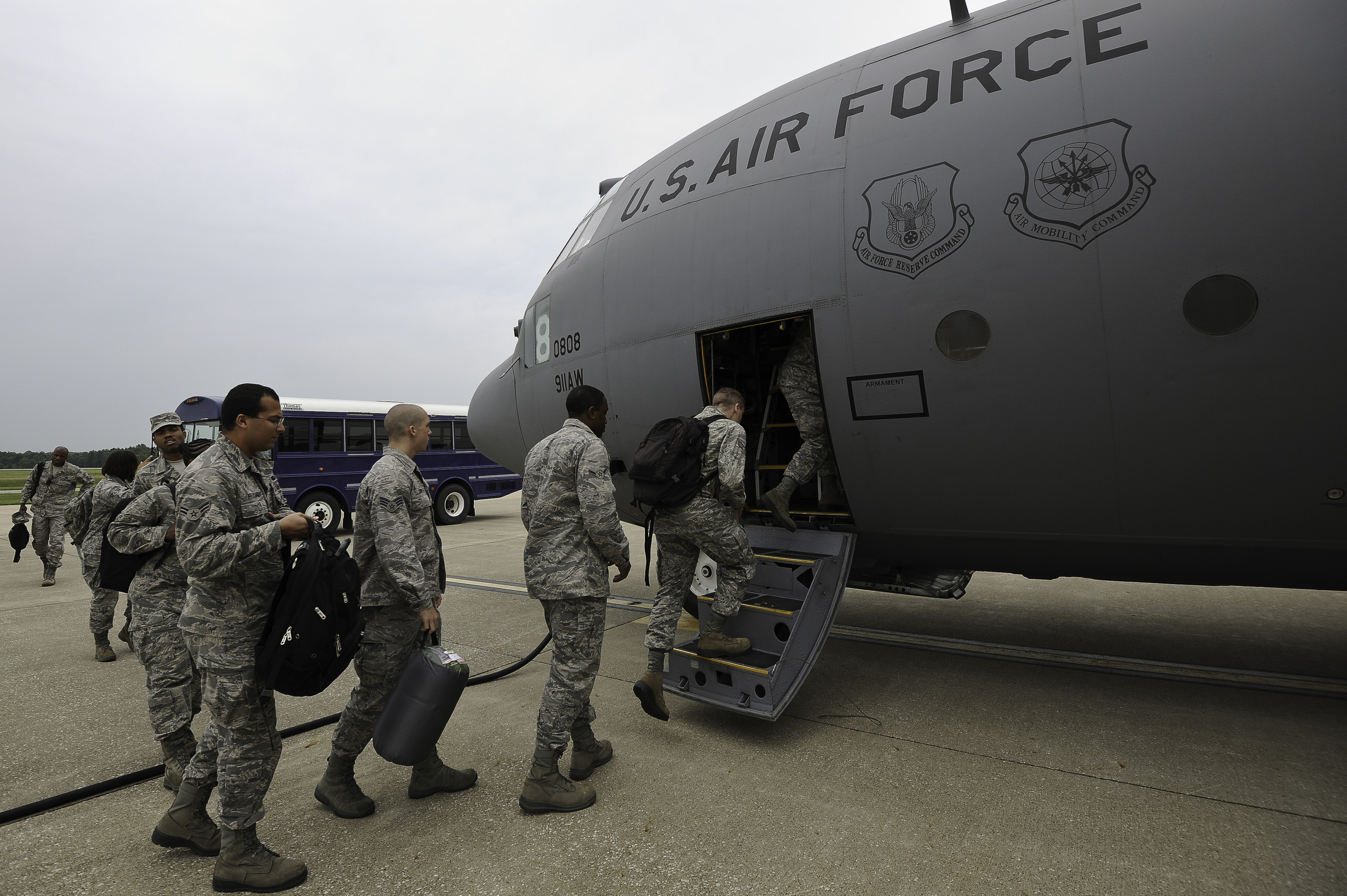 U.S. airmen with the 910th Airlift wing Youngstown Air Reserve Station, Vienna, Ohio., depart their home base on a C-130 Hercules cargo plane from the 758th Airlift Squadron Pittsburgh International Airport Air Reserve Station, Coraopolis, Pa., July 22, 2013. These airmen are participating in Global Medic in conjunction with WAREX, an annual joint-reserve field-training exercise designed to replicate all facets of combat theater aeromedical evacuation support (U.S. Air Force photo/Tech. Sgt. Efren Lopez/Released)